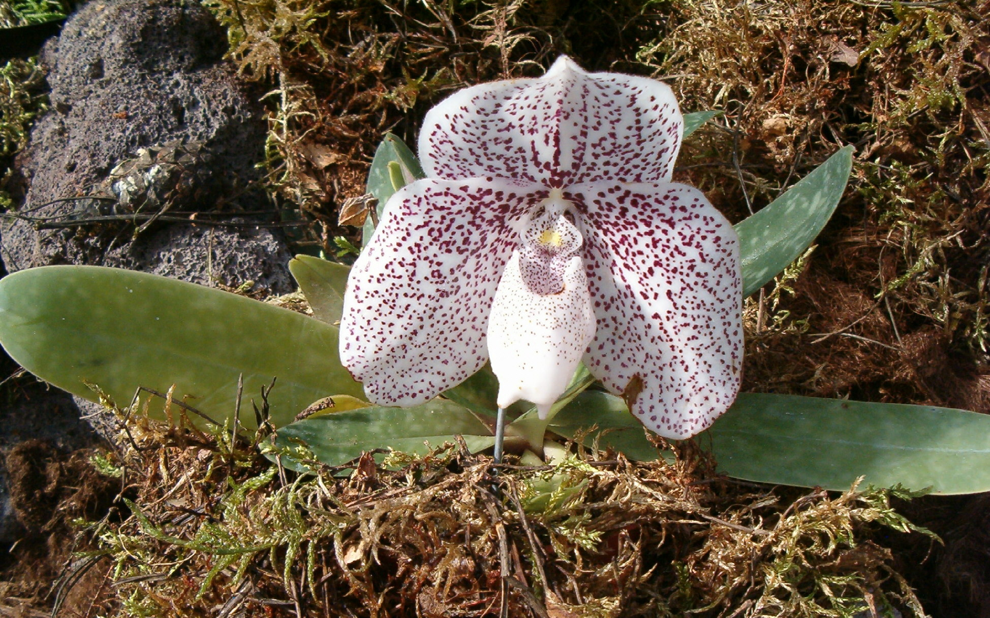 Paphiopedilum godefroyae, Habitus and Flower Location: Botanical Gardens Berlin - Orchid Exhibition